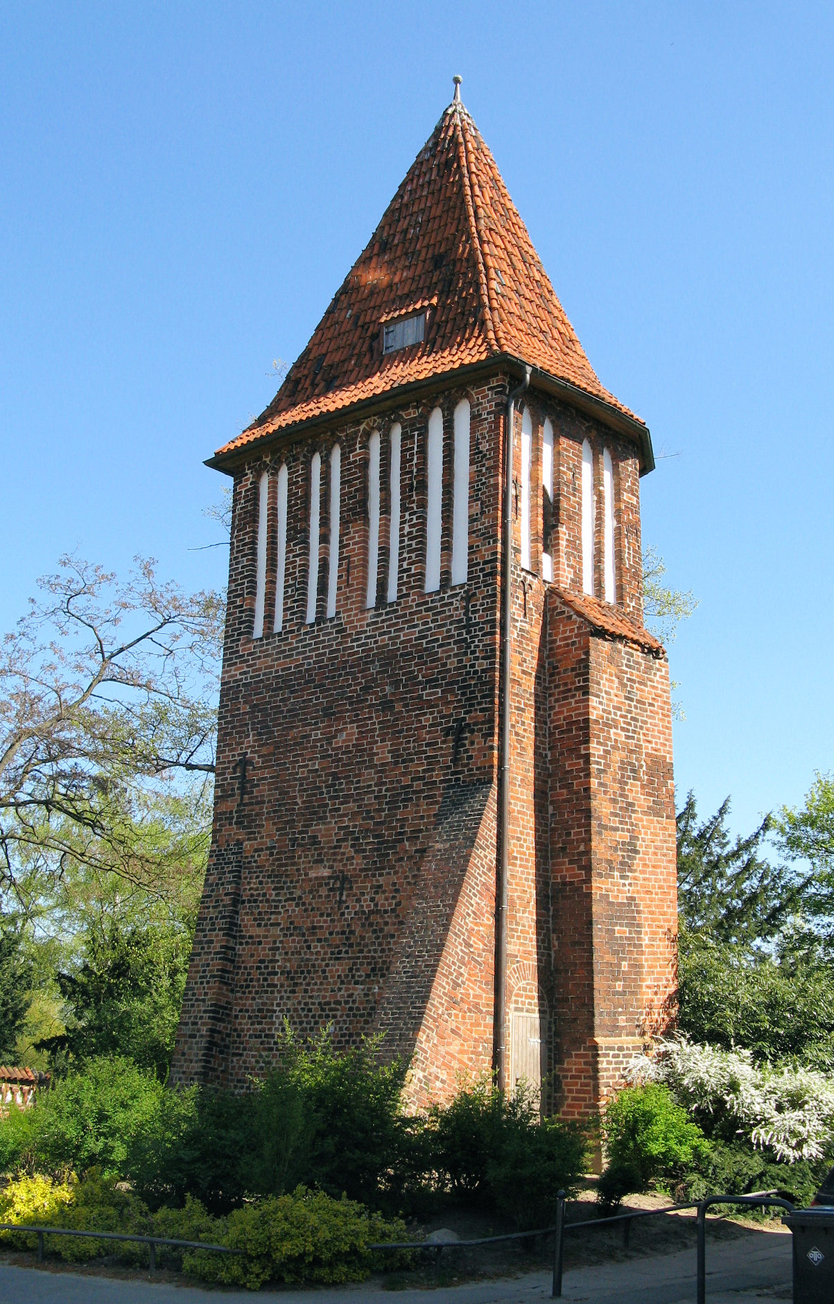 Old water tower in Wismar, Mecklenburg-Vorpommern, Germany